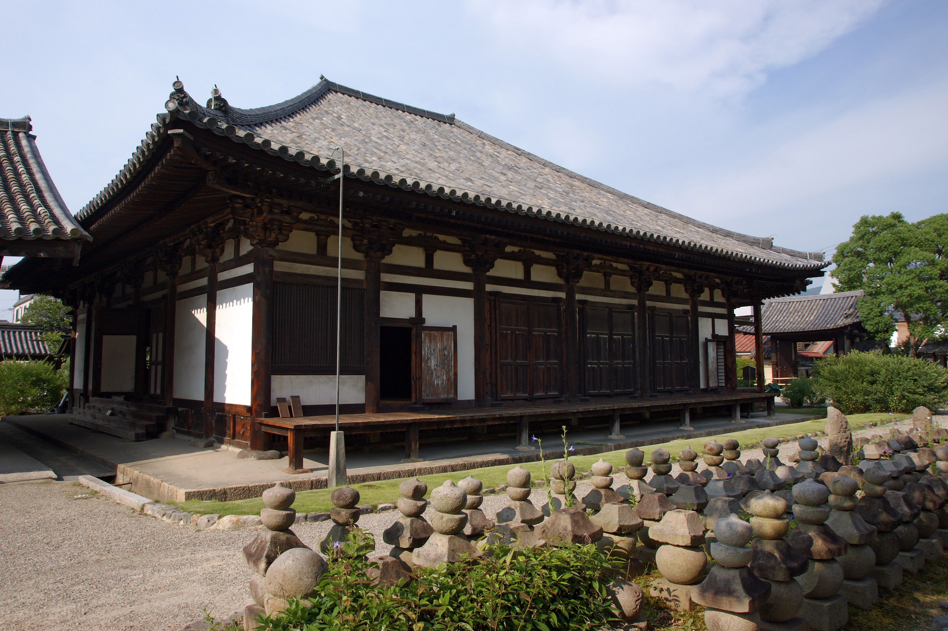 Gangō-ji in Nara, Nara prefecture, Japan